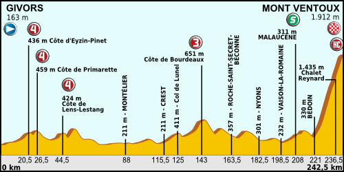 Tour de France 2013 - Profile Stage No. 15